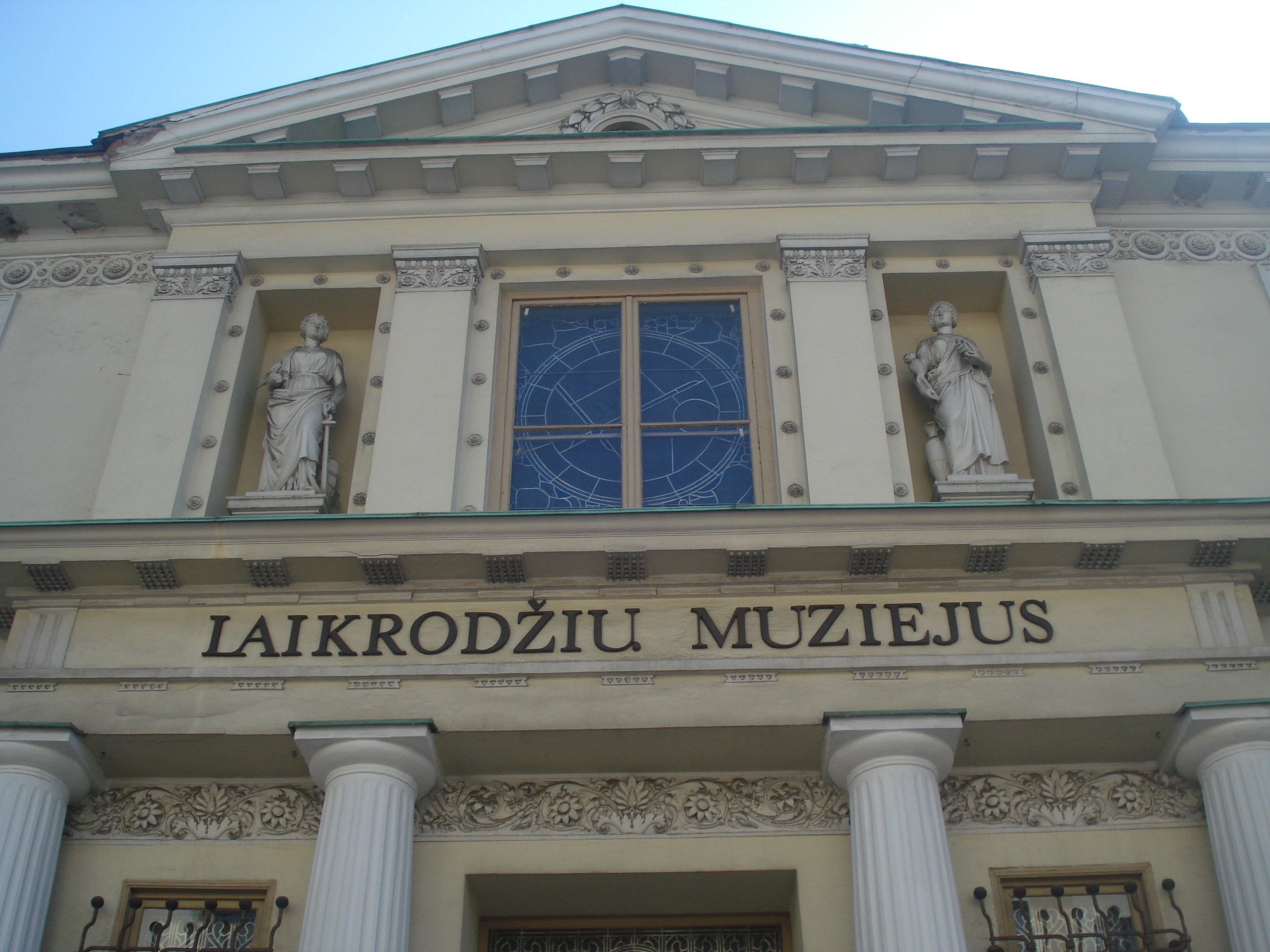 The Clock and Watch Museum in Klaipėda. Liepų Street 12. The detail of the facadeLietuvių: Laikrodžių muziejus (Lietuvos dailės muziejaus padalinys) Klaipėdoje. Liepų g. 12. Fasado detalė